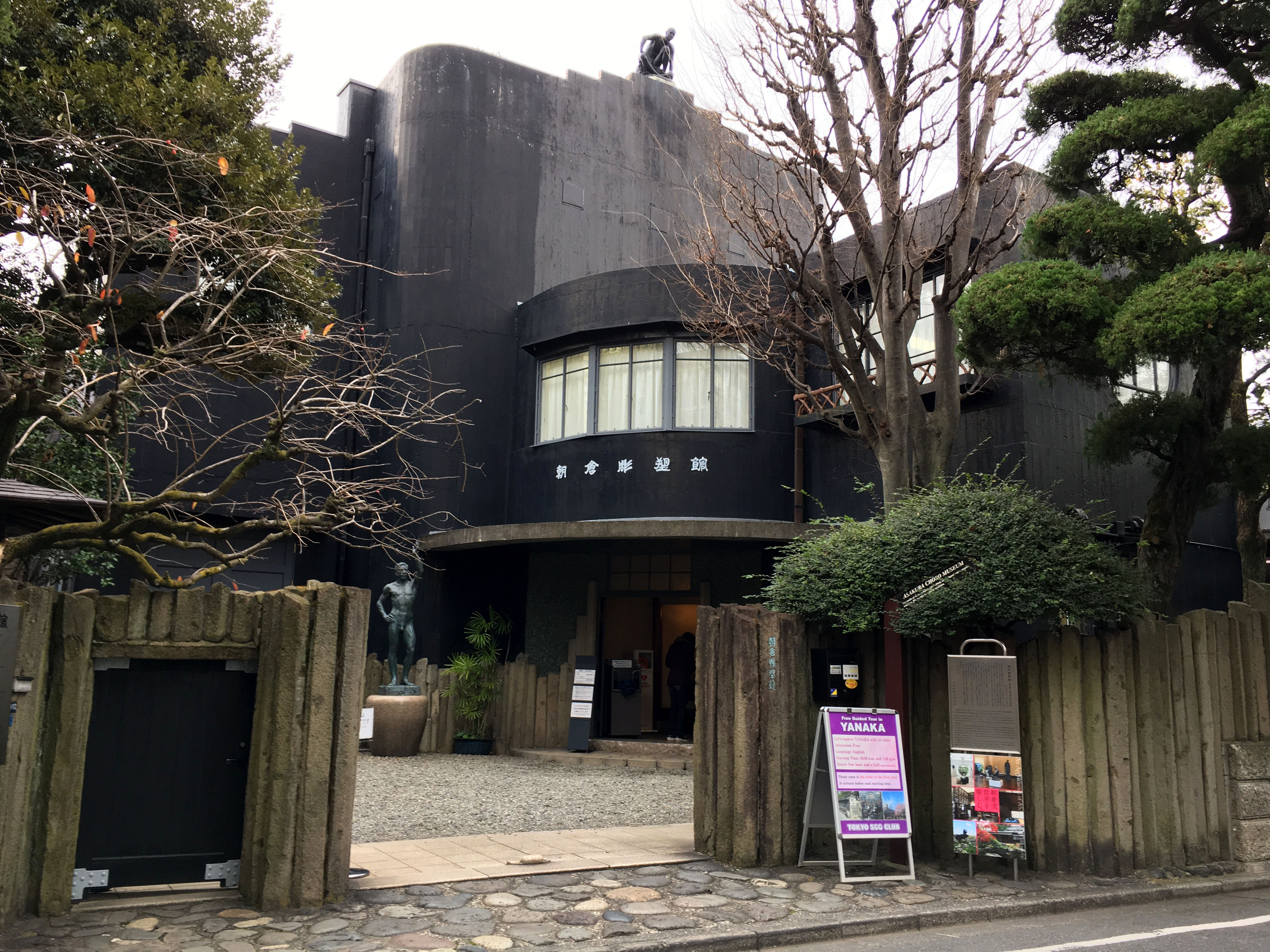 ASAKURA Museum of Sculpture (Tokyo, Japan)